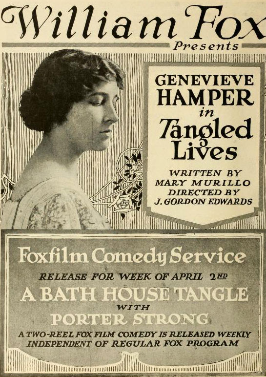 Advertisement in Moving Picture World, Apr 1917 for the film Tangled Lives (1917).